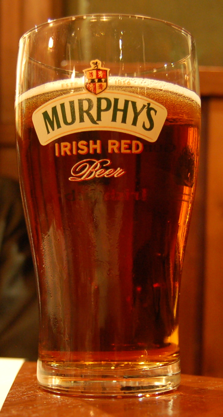 Taken in an Irish Pub located in Madrid, Spain on January 3rd, 2007.